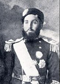 Prince Nasrullah Khan. He became King of Afganistan for one week in 1919.